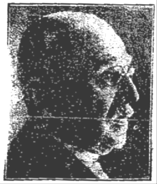 Gustav Jahn (1862-1940), German jurist and first President of the Reichsfinanzhof